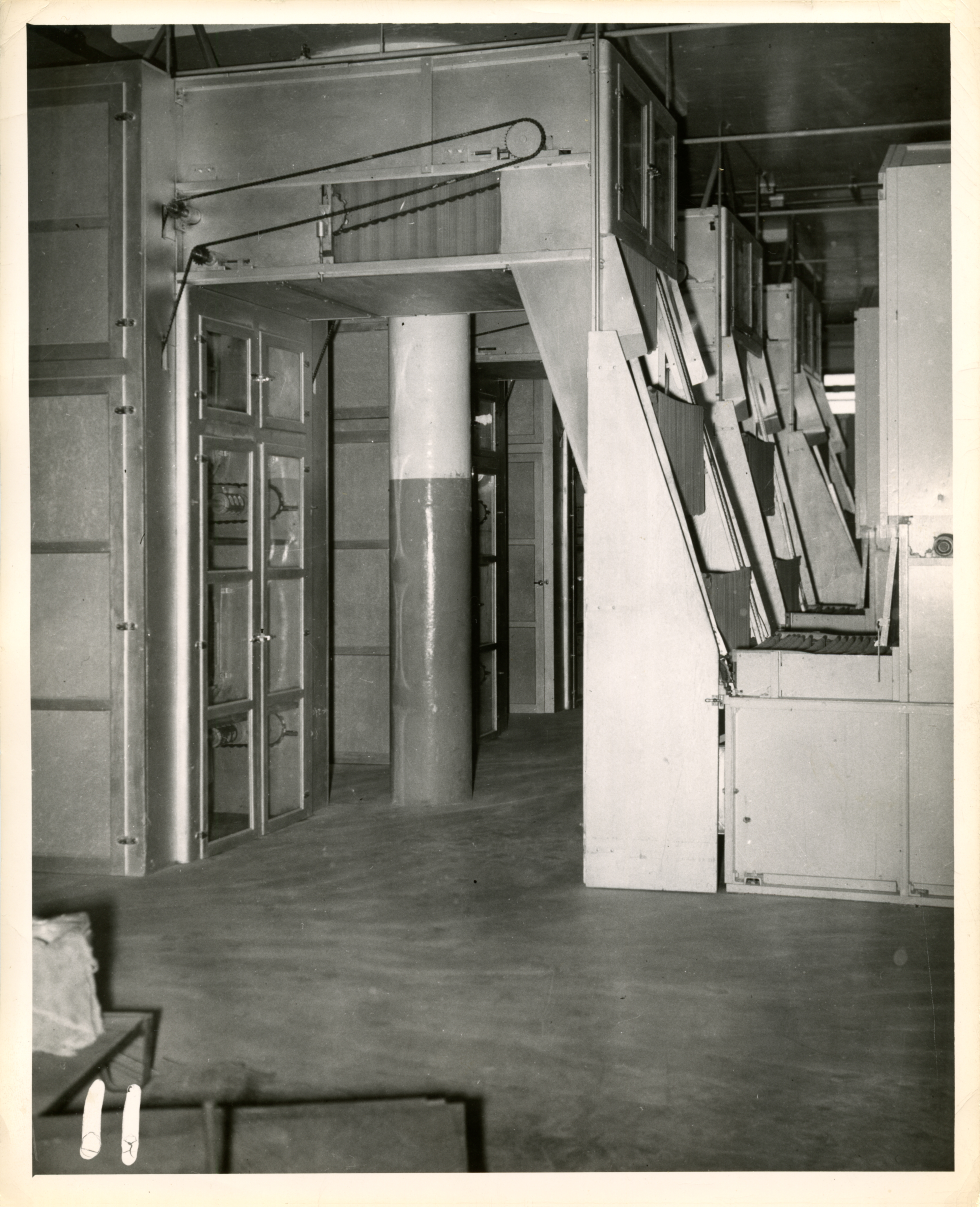 Three rows of dry pasta lines consisting of DEMACO predyers feeding Clermont Machine Company final dryers in the pasta production area of the Ronzoni Macaroni Company factory in New York. Sticks of spaghetti are being transferred from the predryer to the final dryer in high capacity drying systems for pasta making. The spaghetti is hanging from a stick as it is being transported through the dryer. The predryer and final dryer both have different environmental conditions so the spaghetti is dried to perfection.